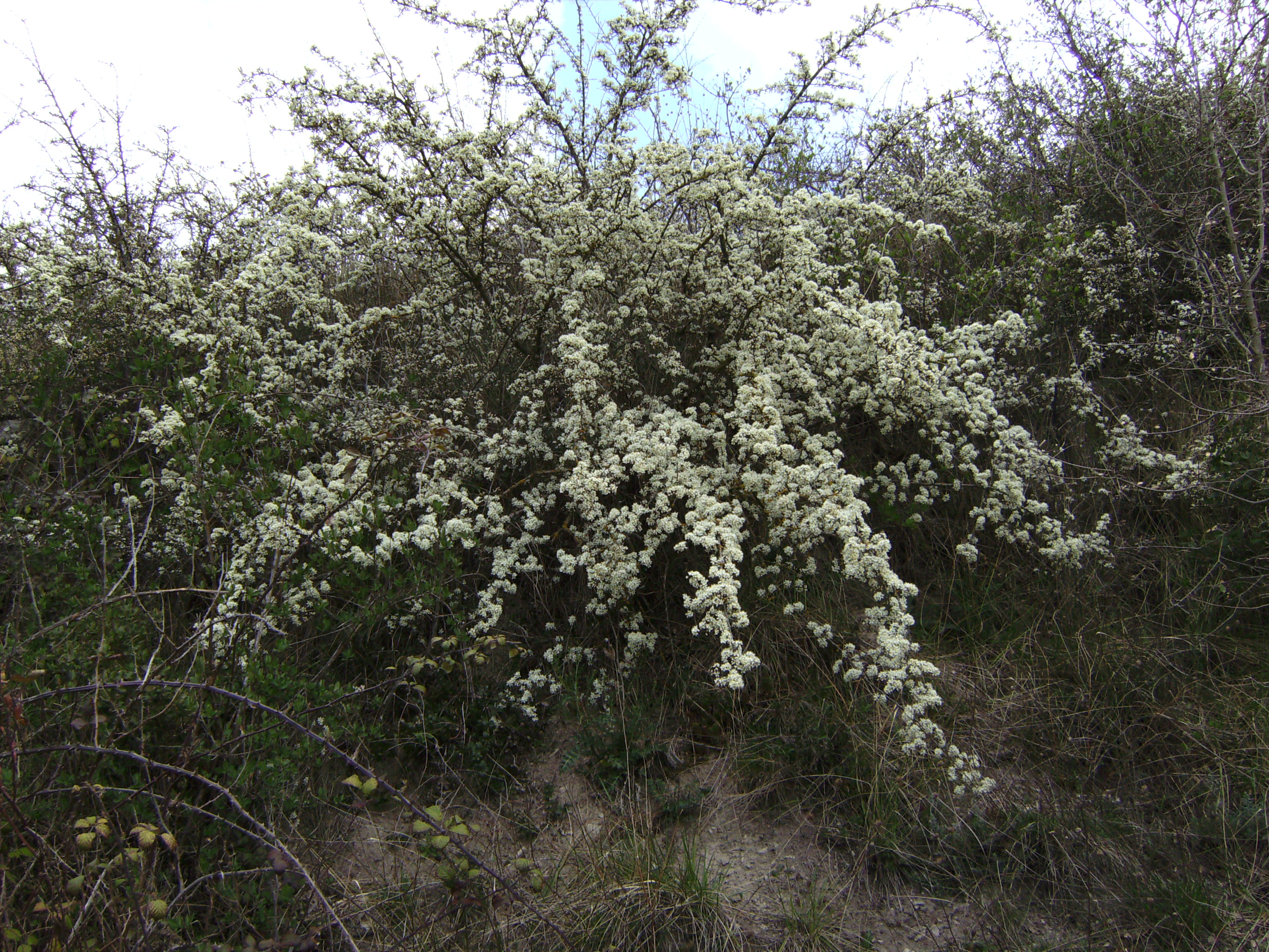 Prunus spinosa flowering (Catalonia)